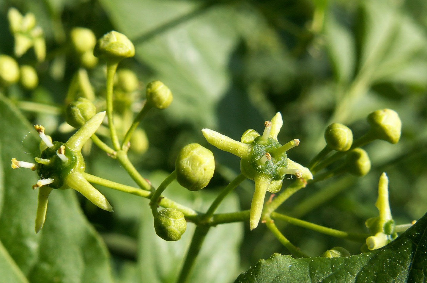 Flowers of Euonymus europaeus